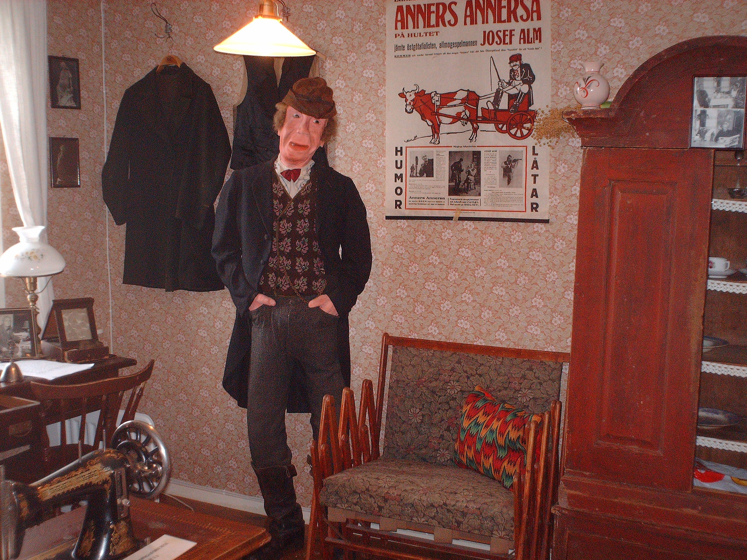 Comedian Anners Annersa museum